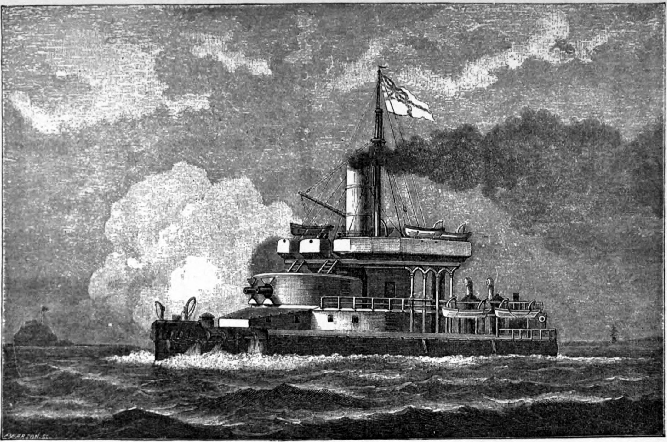 The Glatton. The Agincourt. Plate from Eardley-Wilmott - The Development of Navies